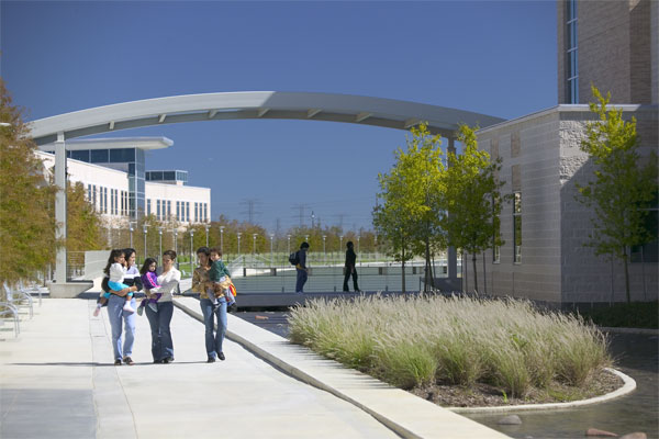 View of Cy-Fair College